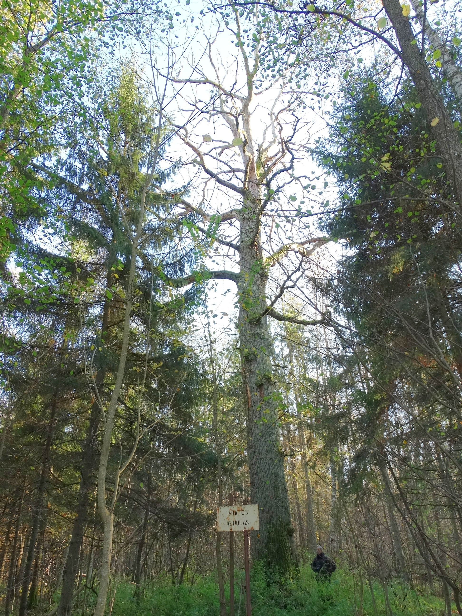 Bukta Oak, Marijampolė municipality, Lithuania